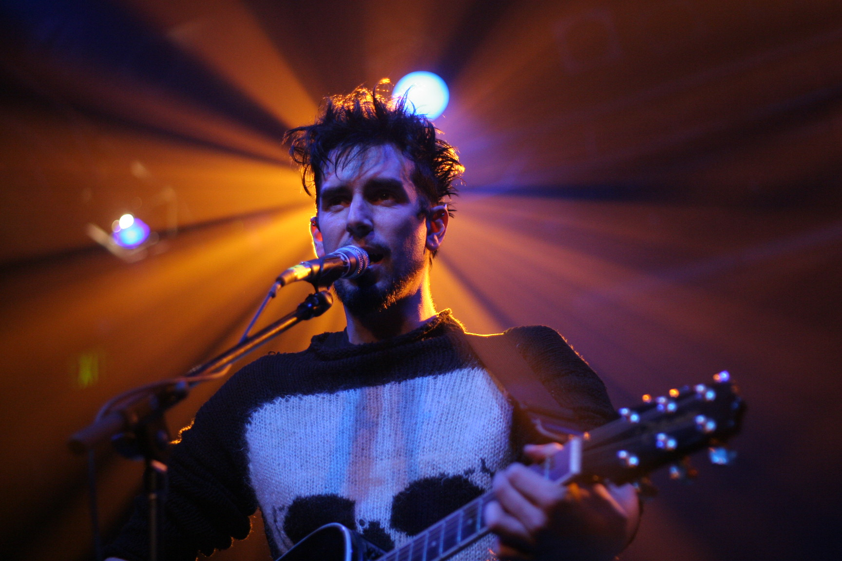 Photograph of singer/author/animator/personality Voltaire, performing live at the DNA Lounge in San Francisco.